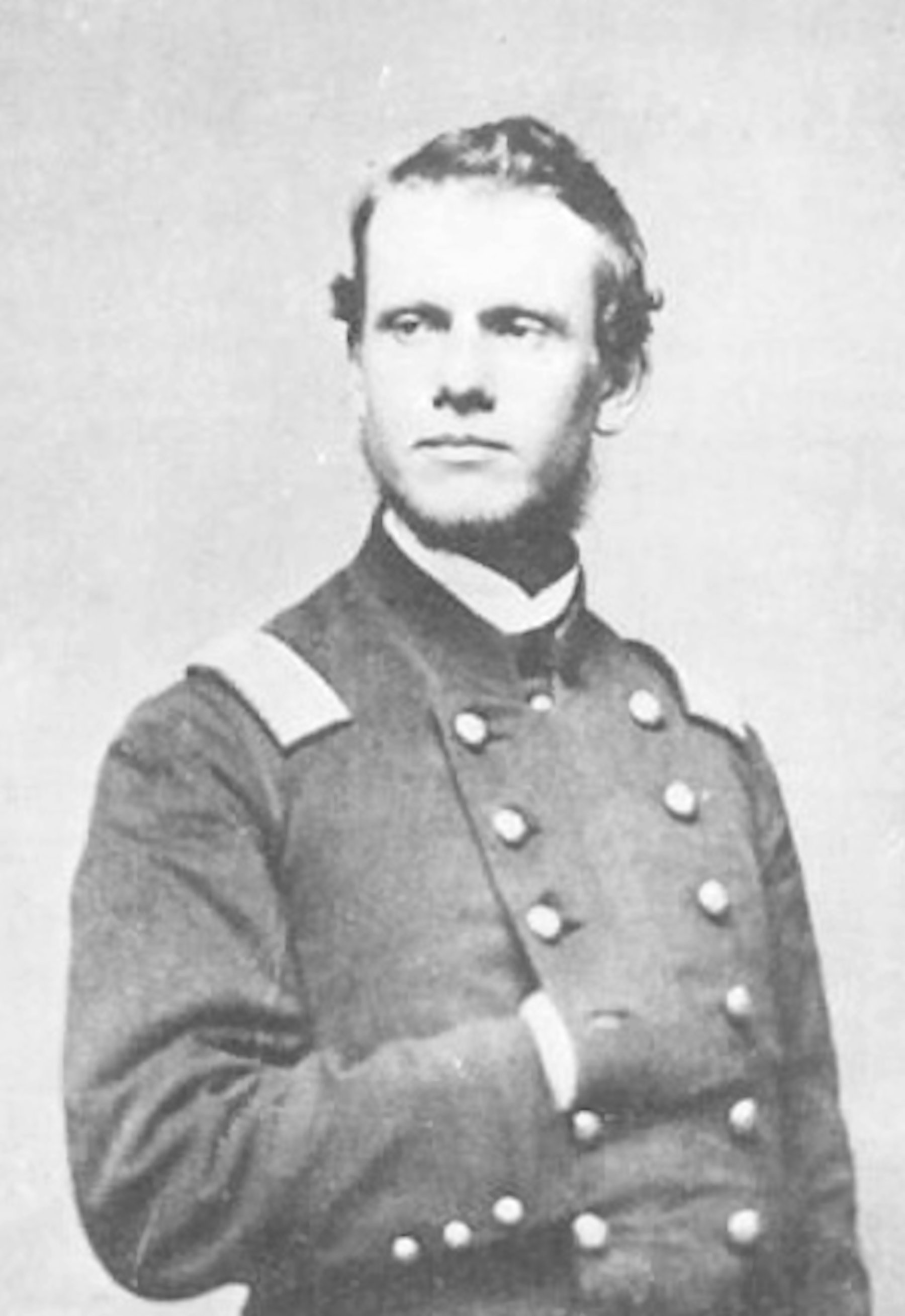 Medal of Honor winner Douglas Hapeman